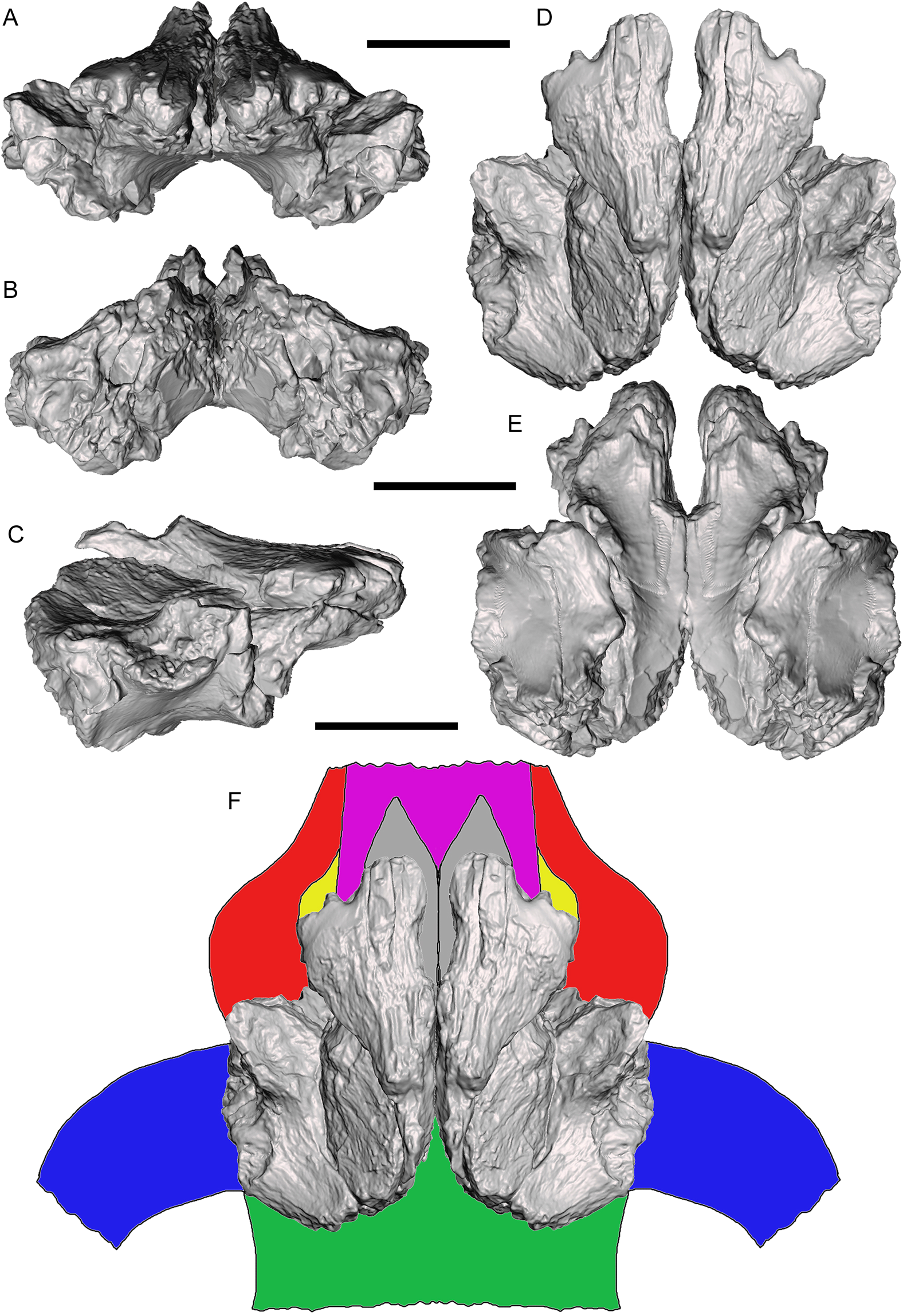 Reconstructed frontal complex of Dynamoterror dynastes. Composite, articulated right and left frontals in (A) rostral; (B) caudal; (C) right lateral; (D) dorsal; and (E) ventral views. (F) Reconstructed skull roof in dorsal view. Elements are color-coded as follows: frontals (gray); fused nasals (violet); prefrontals (yellow); lacrimals (red); postorbitals (blue); and parietal (green). Missing elements reconstructed based upon Teratophoneus curriei (UMNH VP 16690) (Loewen et al., 2013). Scale bars equal five cm.